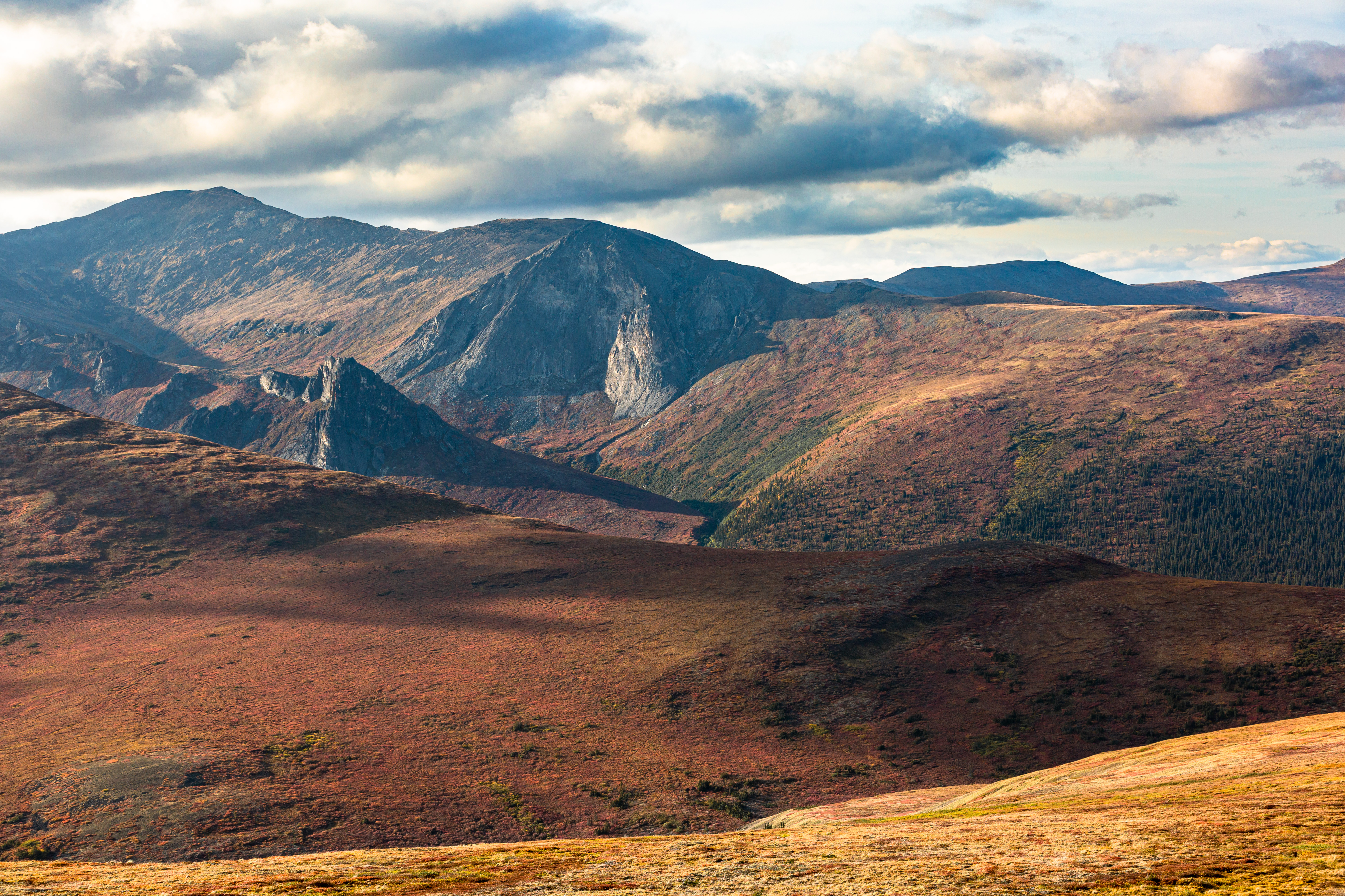 View of Mt. Prindle and the American Creek drainage from near the southern border of the Steese National Conservation Area's North Unit.